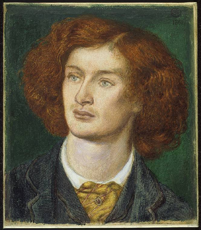 The drawing was executed as a pendant to the portrait of Robert Browning - no. 681, S. 275.